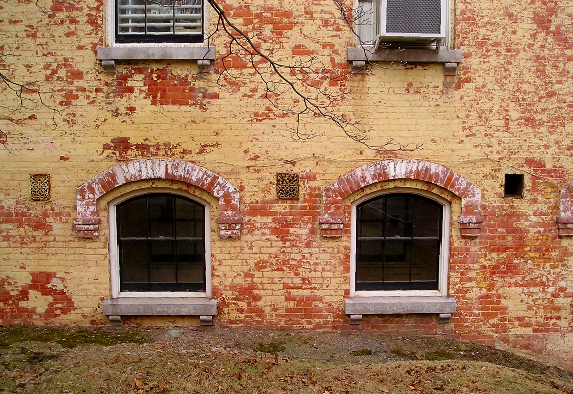 Brickwork at Snug Harbor Cultural Center